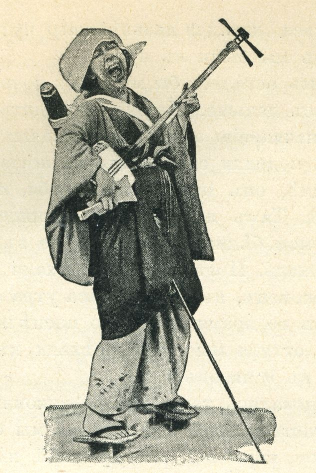 Shamisen player. Image from the book "Japan And Japanese" (1902). Page 232